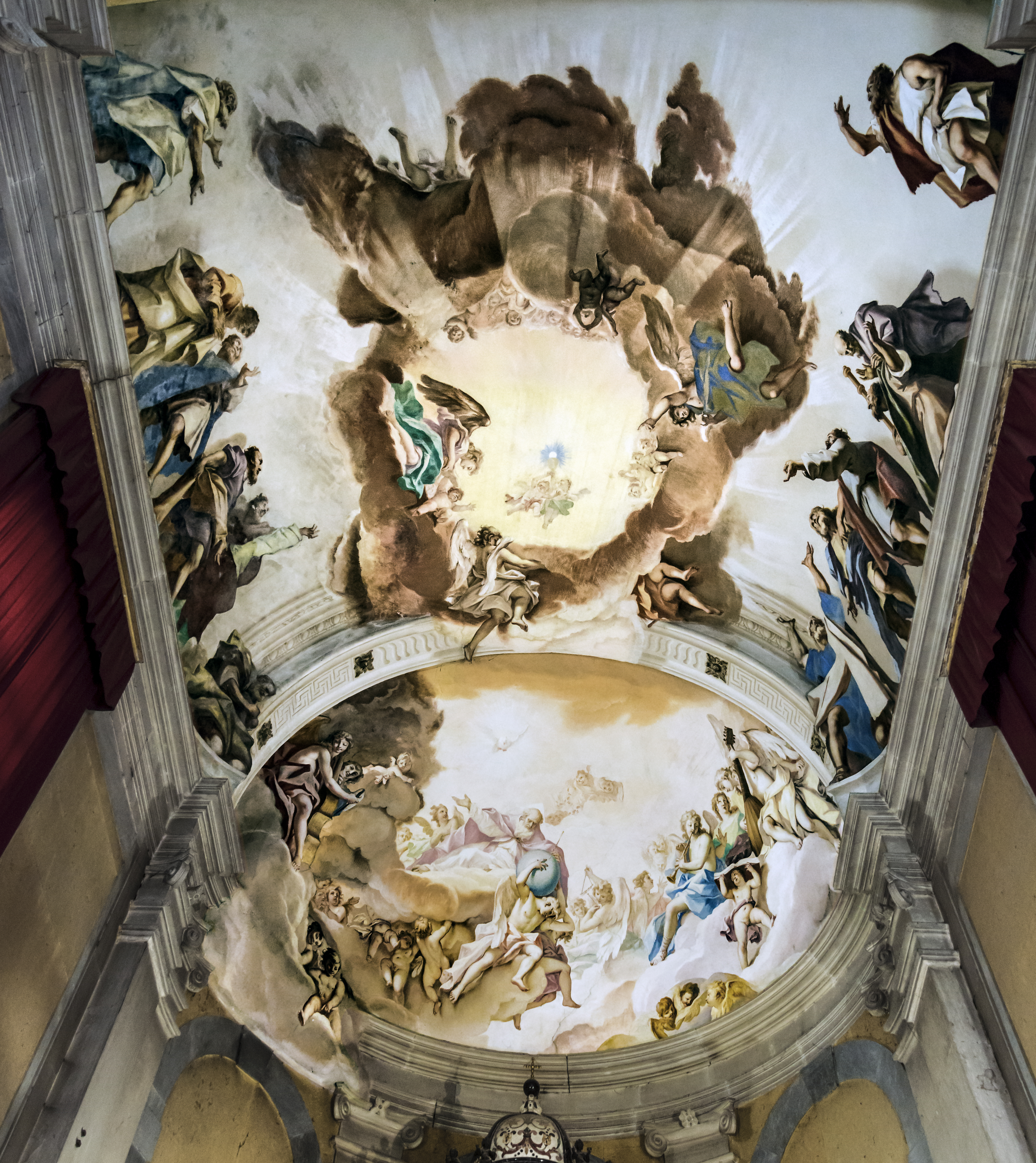 Churche Saint Justina of Padua in Italy. Chapel of the Blessed Sacrament. The ceiling is decorated with frescoes depicting angels and apostles worshiping the Blessed Sacrament. The work is by Sebastiano Ricci made around 1700; It is characterized by the use of the trompe l'oeil. The vault above the altar is occupied by the representation of the Eternal Father, preceded by the Apostles, represented as if placed above the walls of the chapel, and attracted by the Eucharist carried in triumph by An angelic crowd.